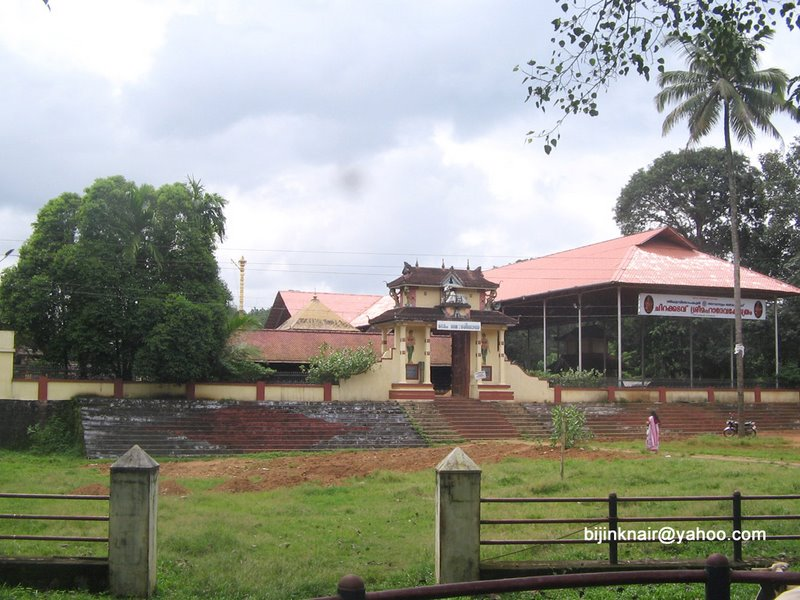 The Chirakkadavu Sree Mahadevar temple.